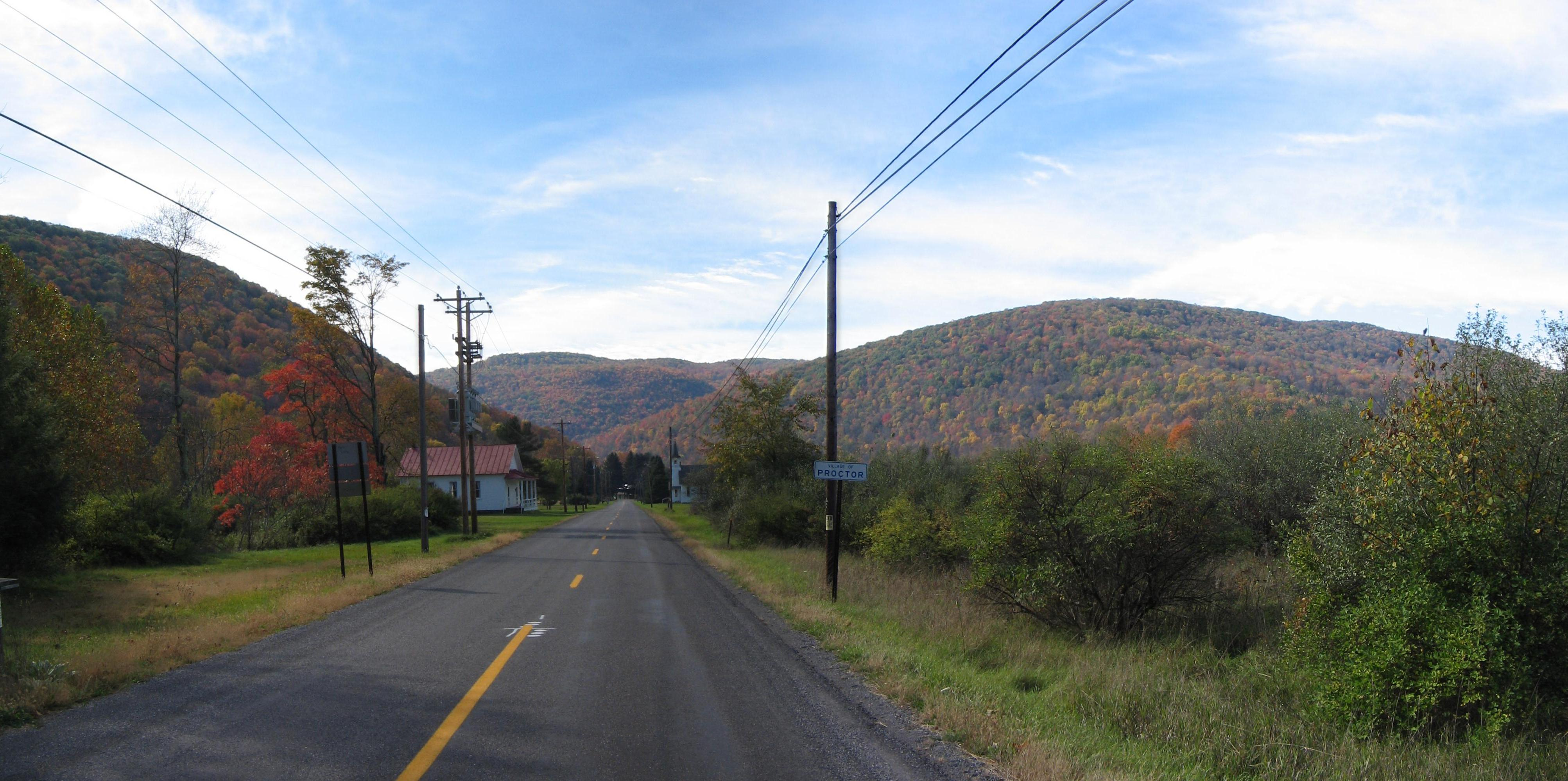 Village of Proctor in Plunketts Creek Township, Lycoming County, Pennsylvania, United States, looking west, closed church is visible, Plunketts Creek is at left but not visible